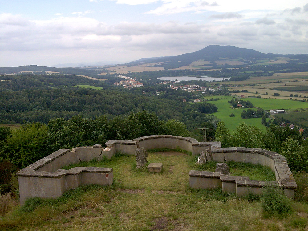 Úštěk from Kalvárie, Ostré, Czech Republic